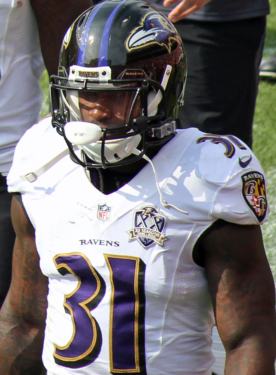 Terrence Brooks, a player on the National Football League.